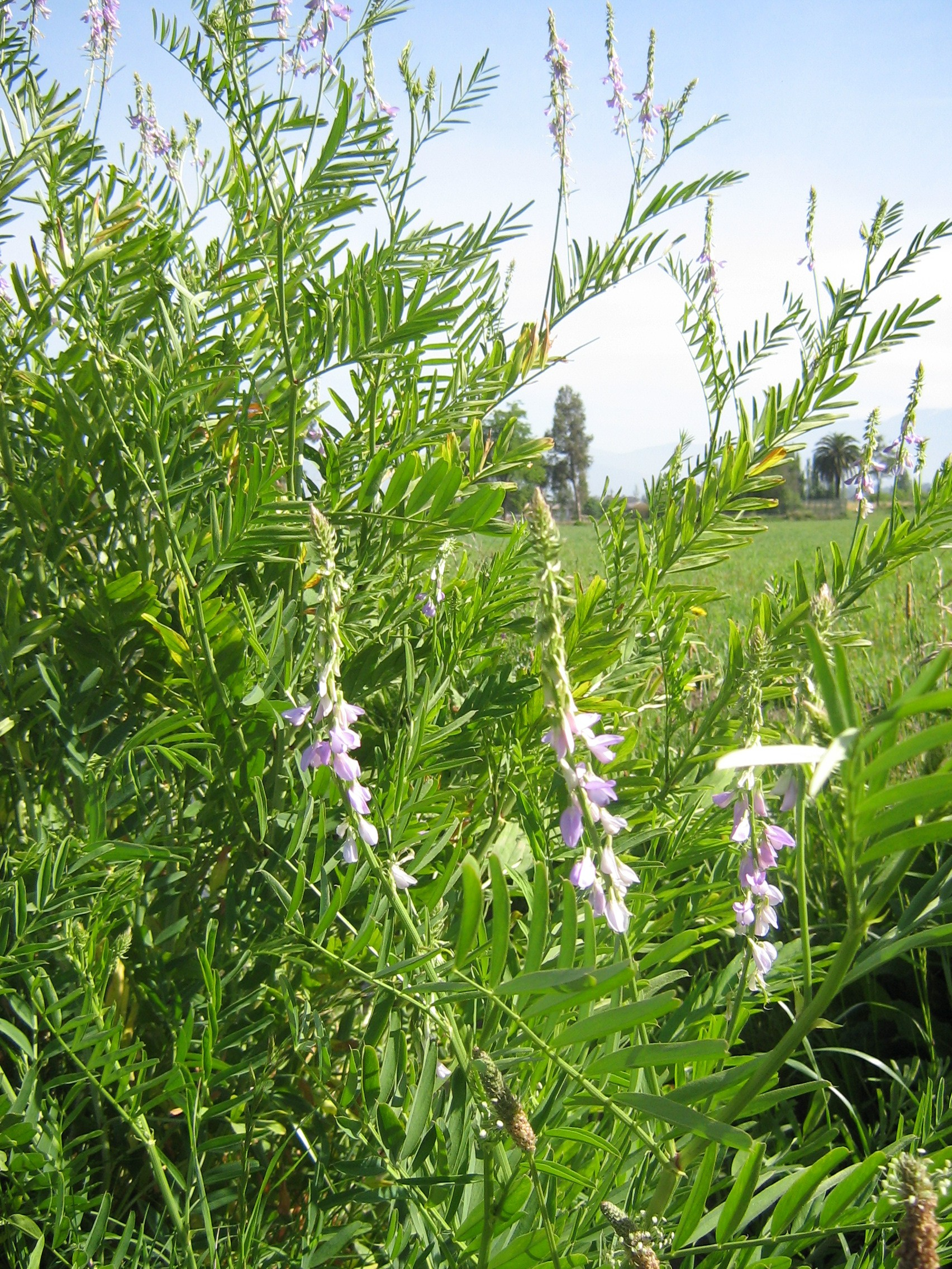 Astragalus berterianus, weed in South America